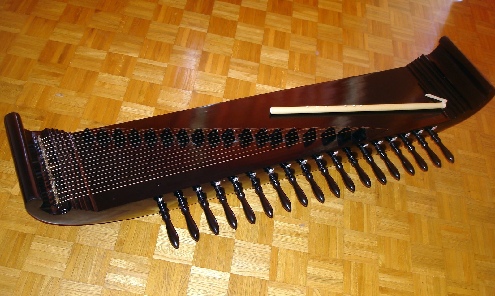 Kacapi and suling in full length